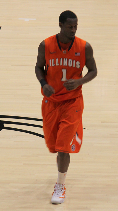 DJ Richardson at Welsh-Ryan Arena in Evanston, Illinois on January 4, 2012.